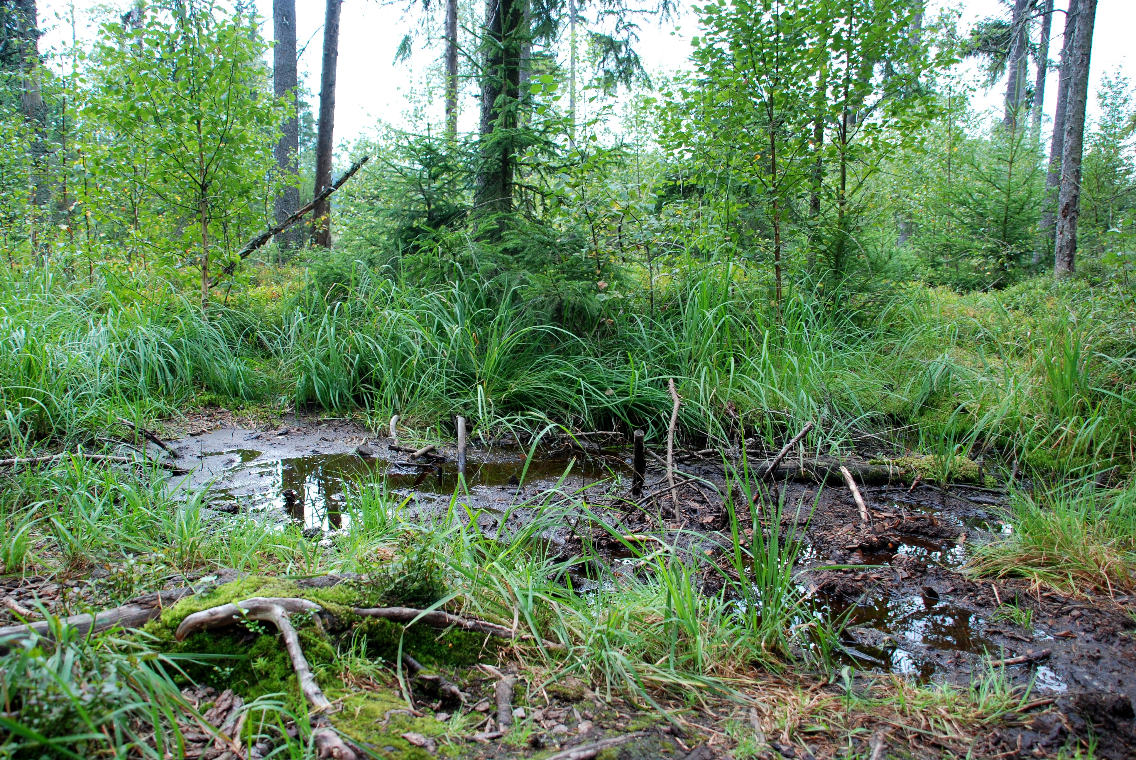 Tanner Moor (Upper Austria)